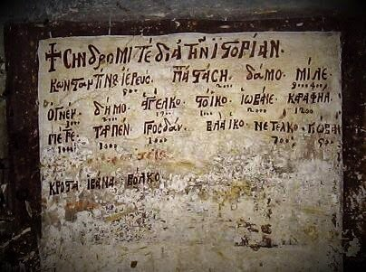 Iscription in Saint Germanus Church in Afios Germanos German